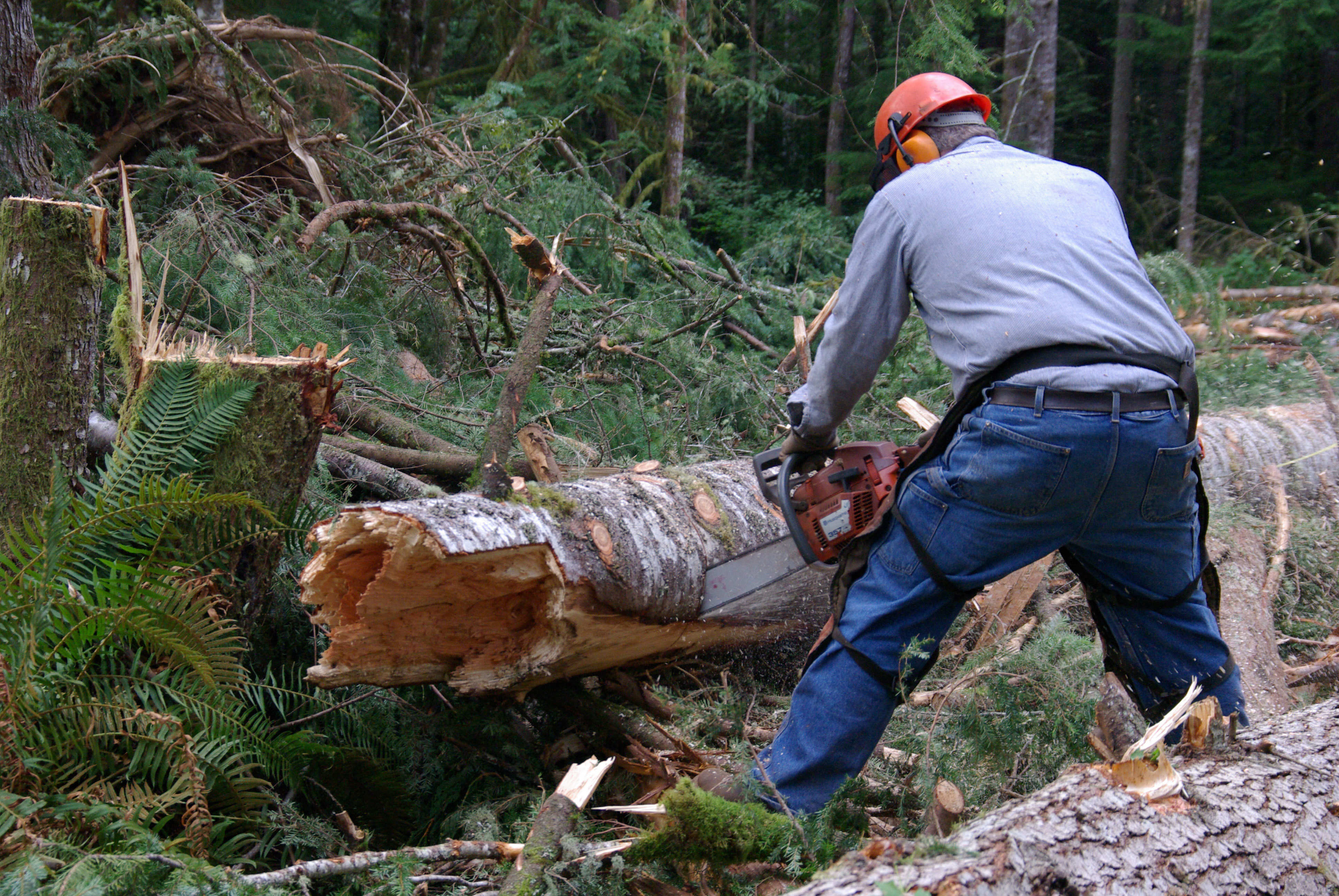 This tree was broken in falling or handling and the remaining part will be trimmed to a suitable length for market.